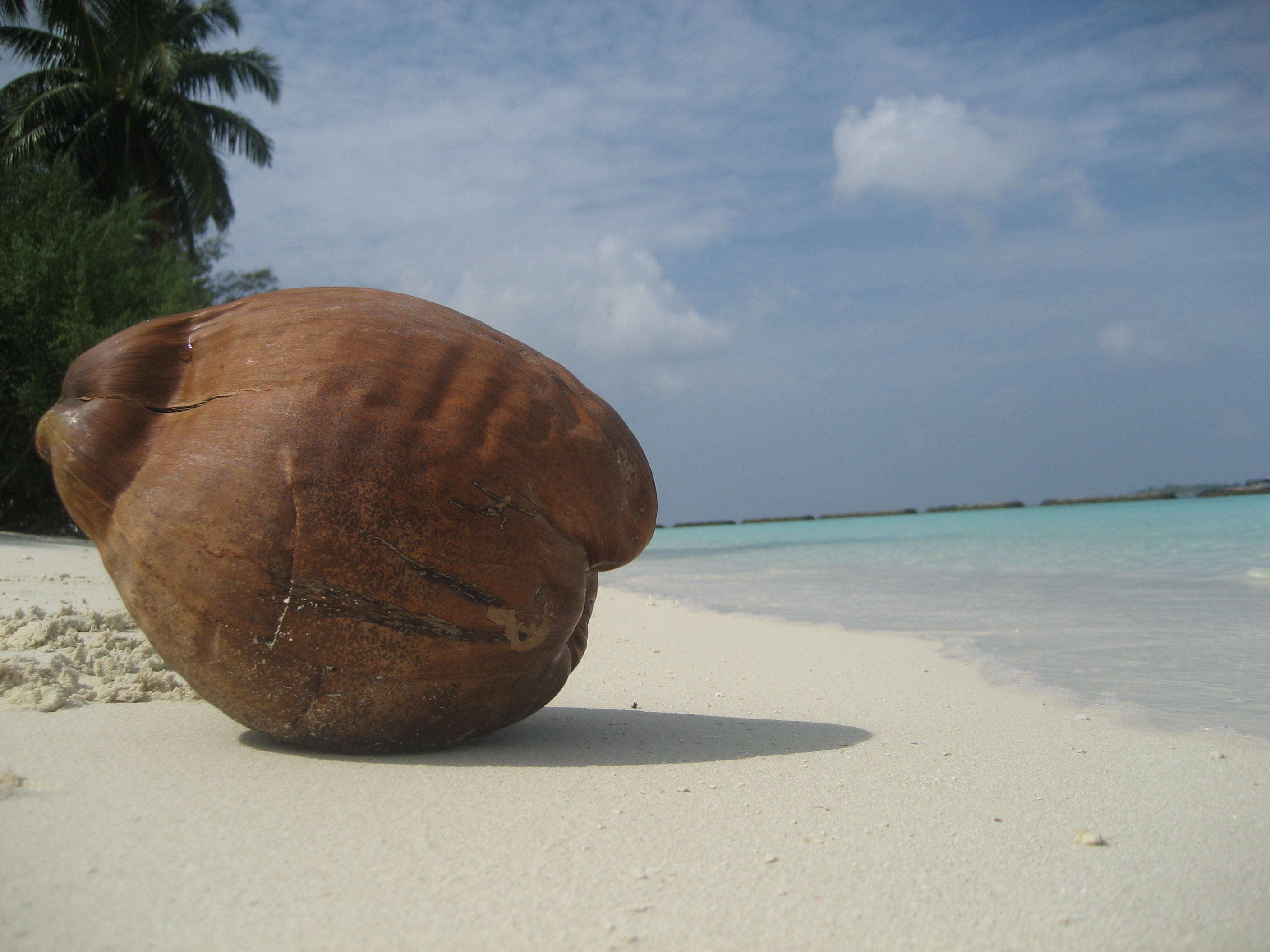 Coconut lying on the Maldivian beach near Male